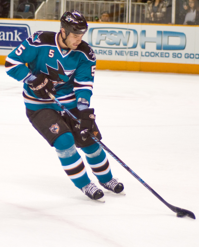 Rob Davison